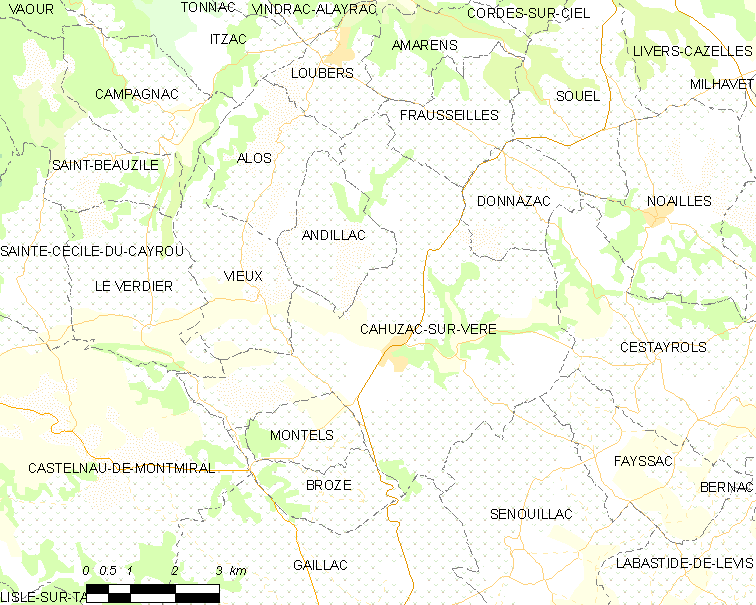 Map of French municipality Cahuzac-sur-Vère